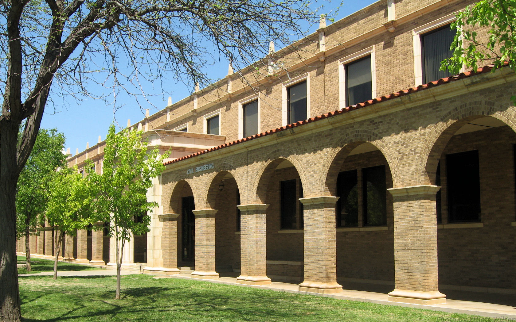 Civil Engineering building at Texas Tech University in Lubbock, Texas, U.S.